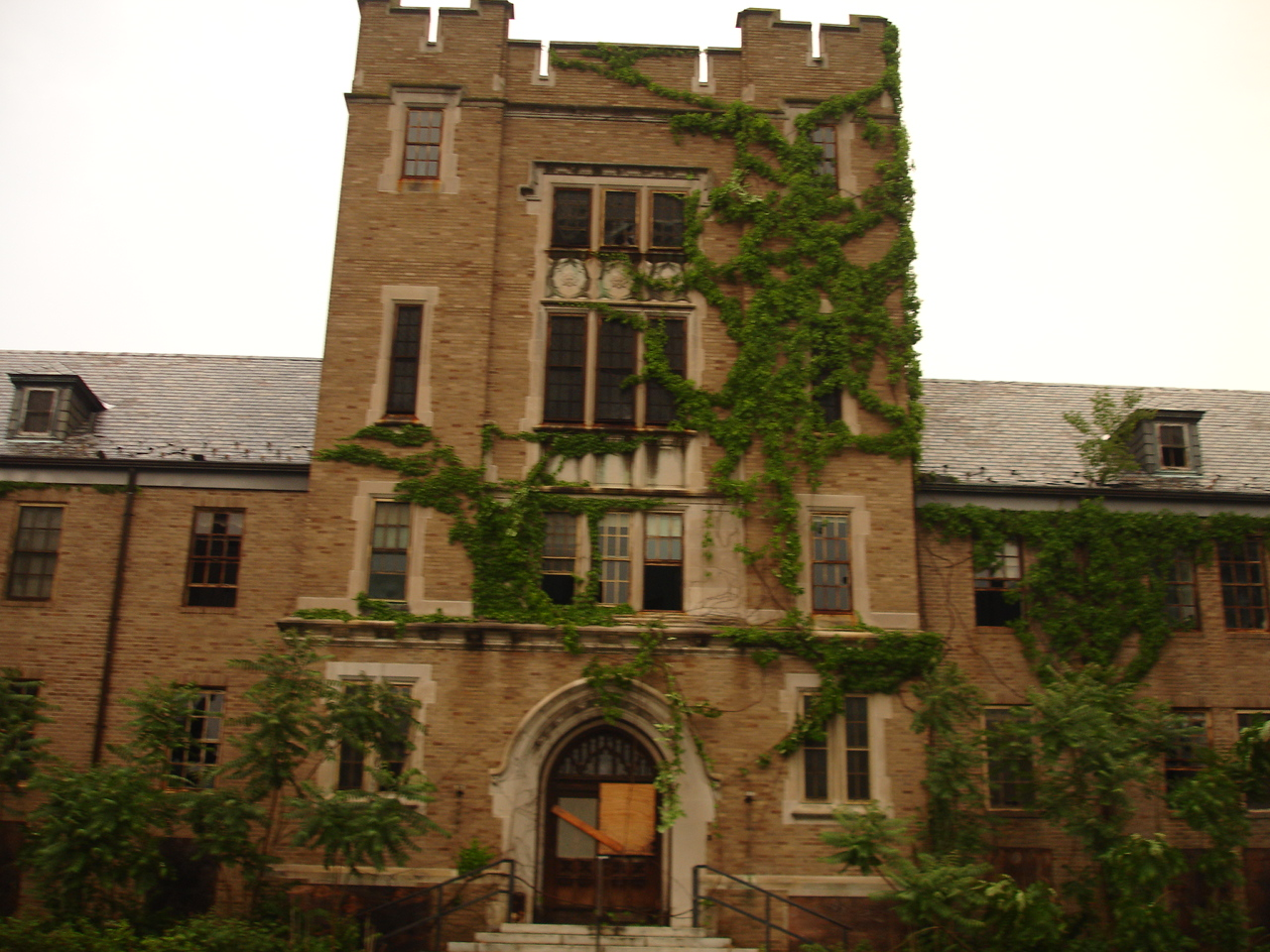 Taken by myself summer 2006